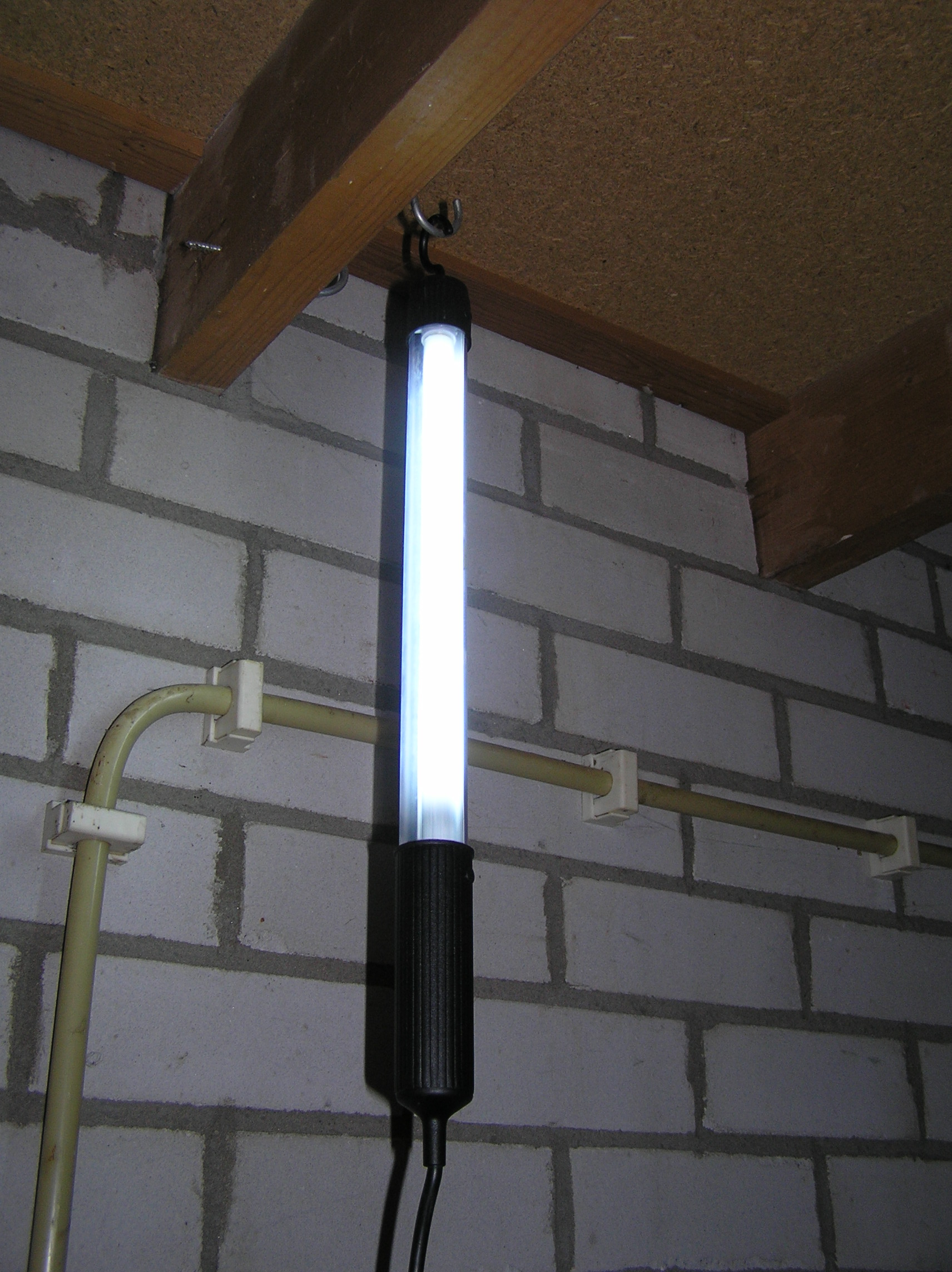 Portable fluorescent lamp